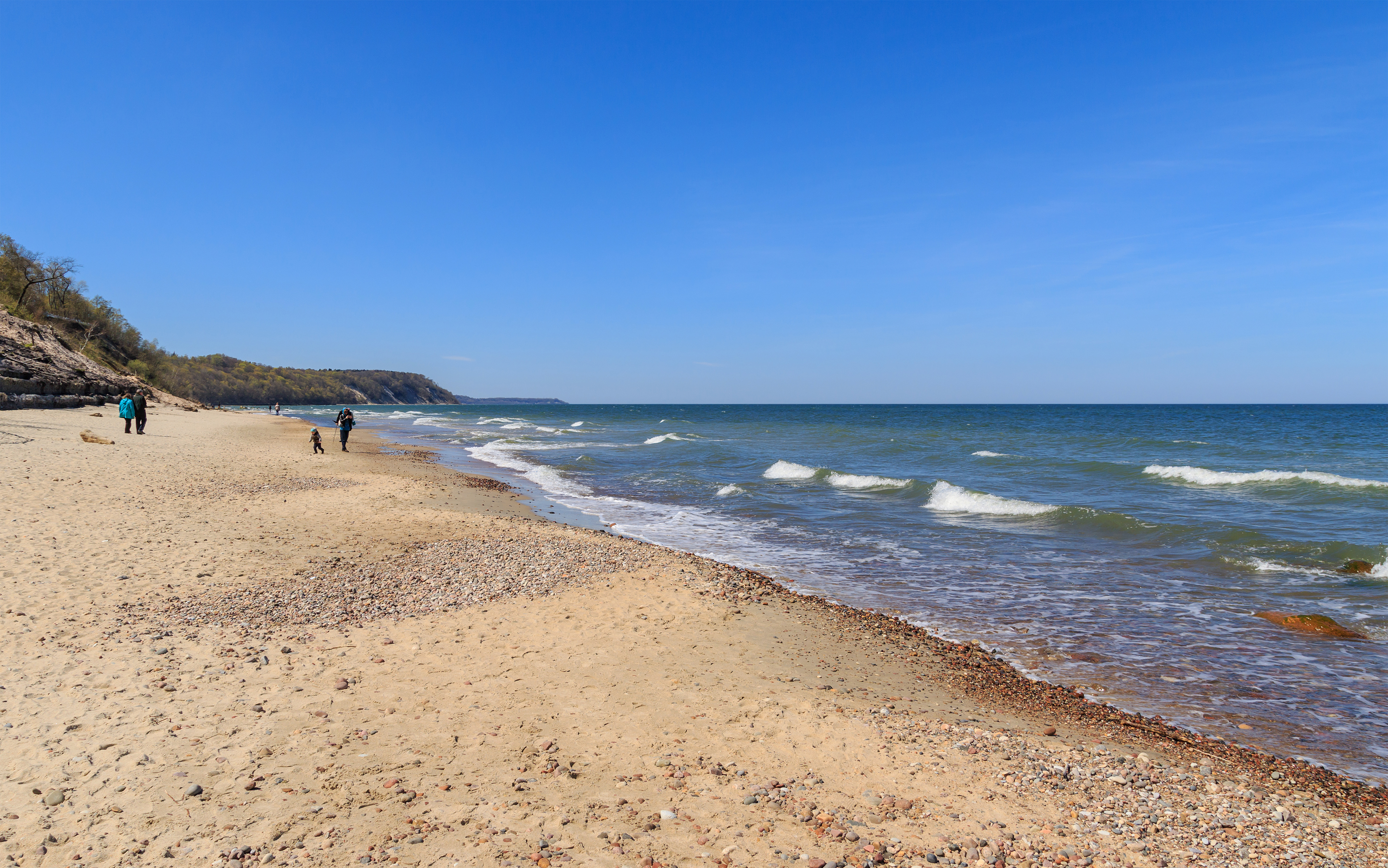 Sea beach in Svetlogorsk formerly Rauschen / Kaliningrad Oblast (Russia).